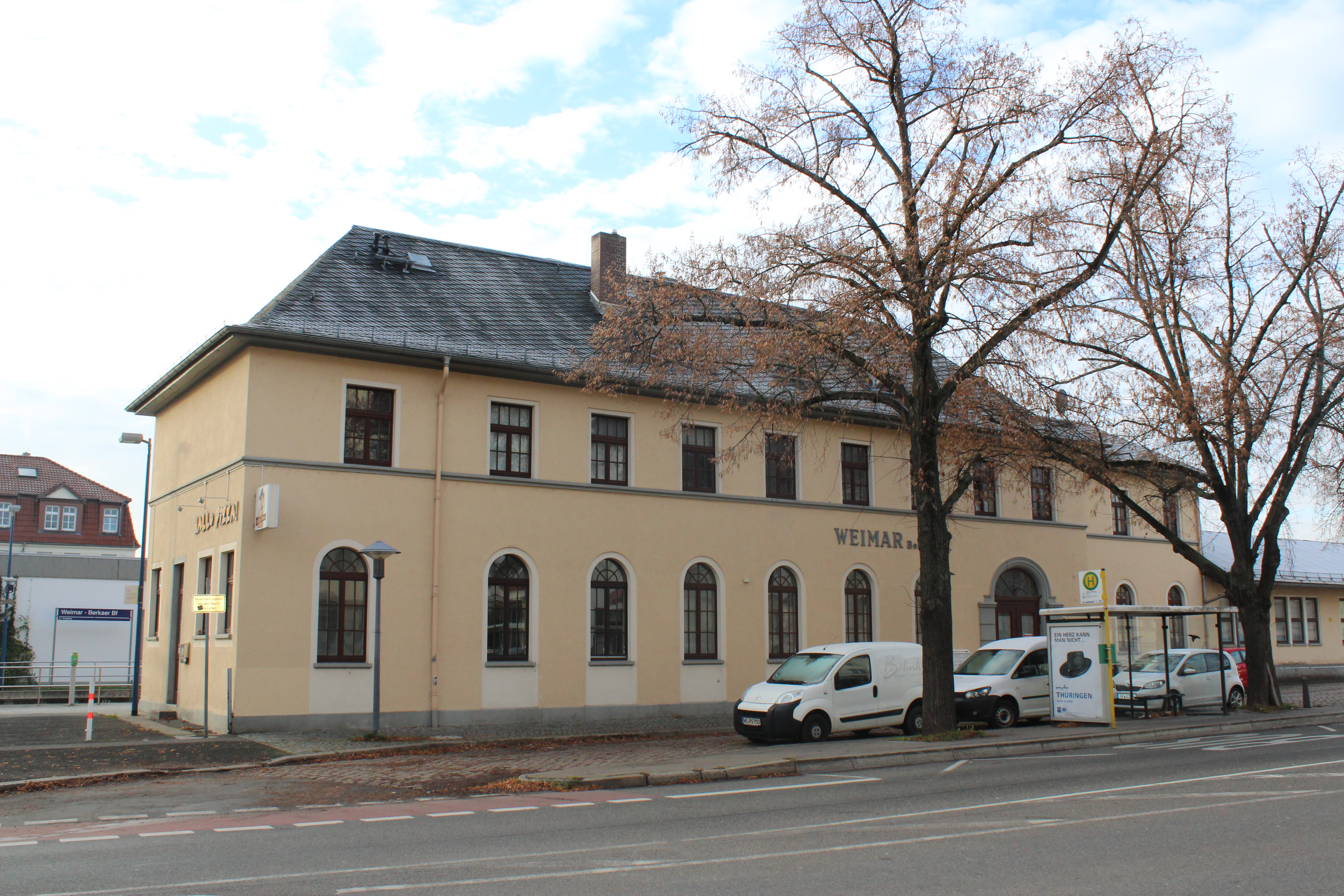 train station Weimar Berkaer Bf, station building